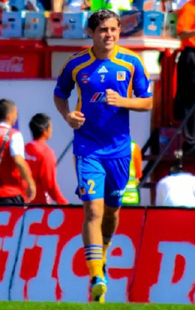 Tigres player Israel Jimenez